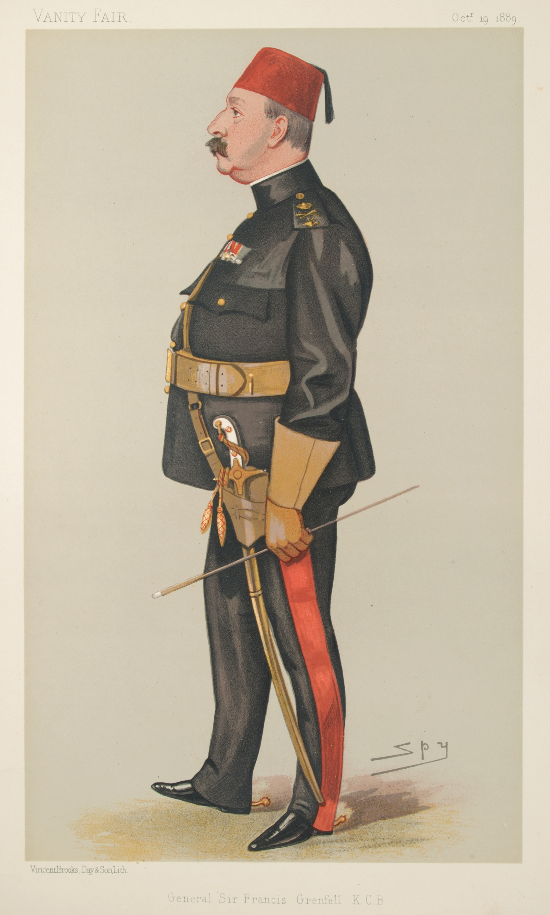 Men of the Day No. 444: Caricature of Major-General Sir Francis Grenfell, K.C.B.. Caption read: "General Sir Francis Grenfell K.C.B"